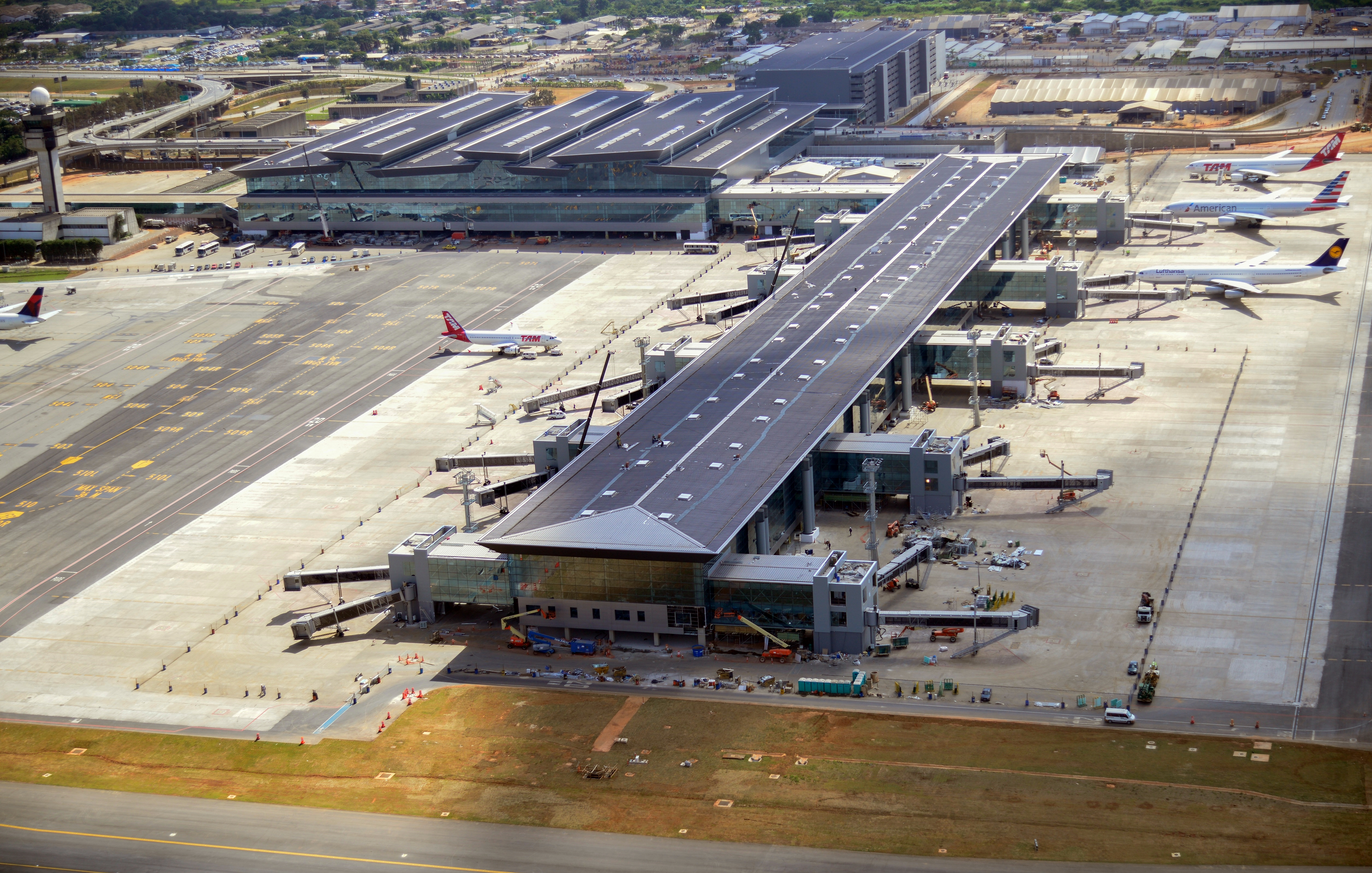 Terminal 3 do Aeroporto Internacional de Guarulhos, São Paulo, Brasil